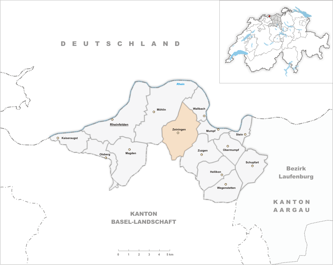 Municipality Zeiningen